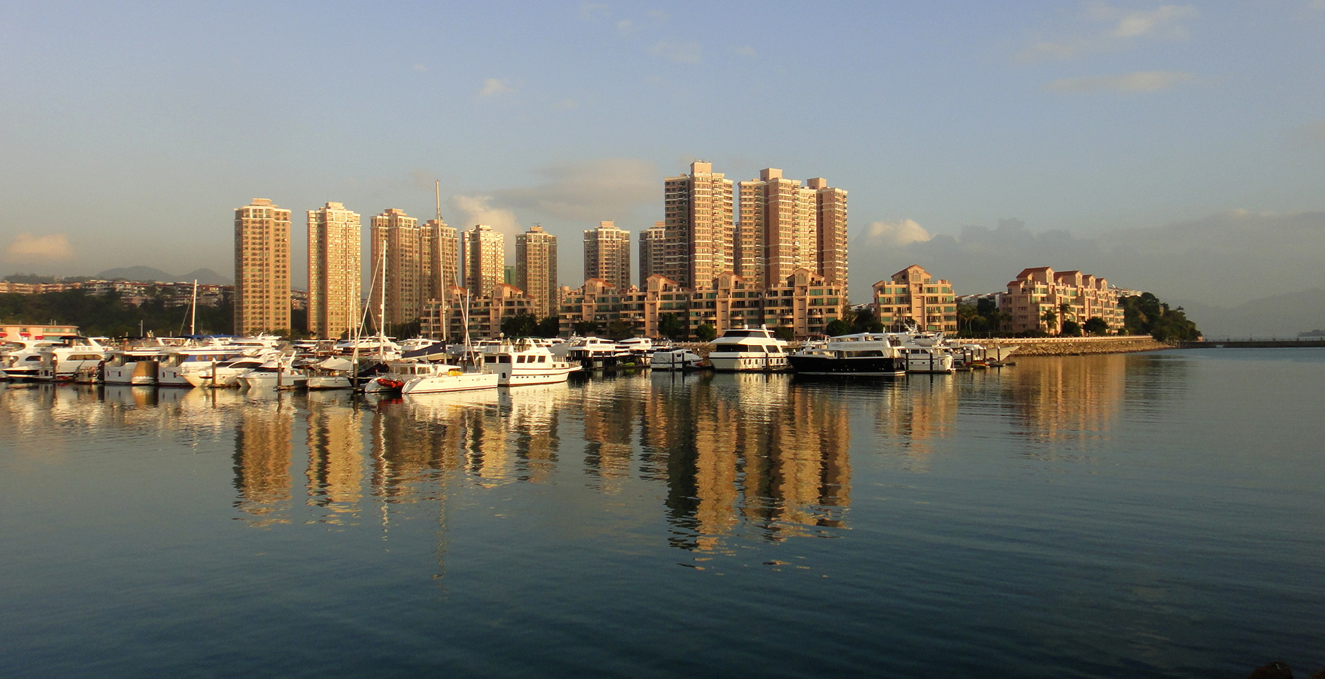 Hong Kong Gold Coast Apartments